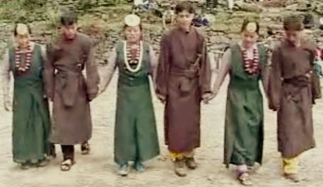 Limbu (Yakthung) culture. Tradition "Dhan-nach" or paddy dance.